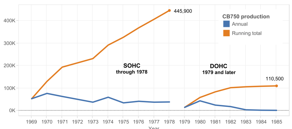 Annual Honda CB750 production statistics, showing annual and cumulative numbers, separated by SOHC (to 1978) and DOHC (1979 and later)